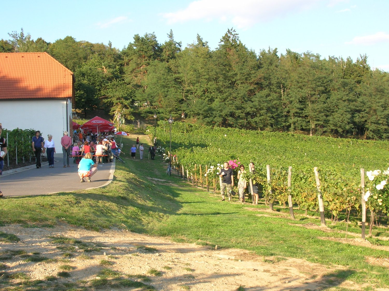 Čáslavice. Sádek Vineyard